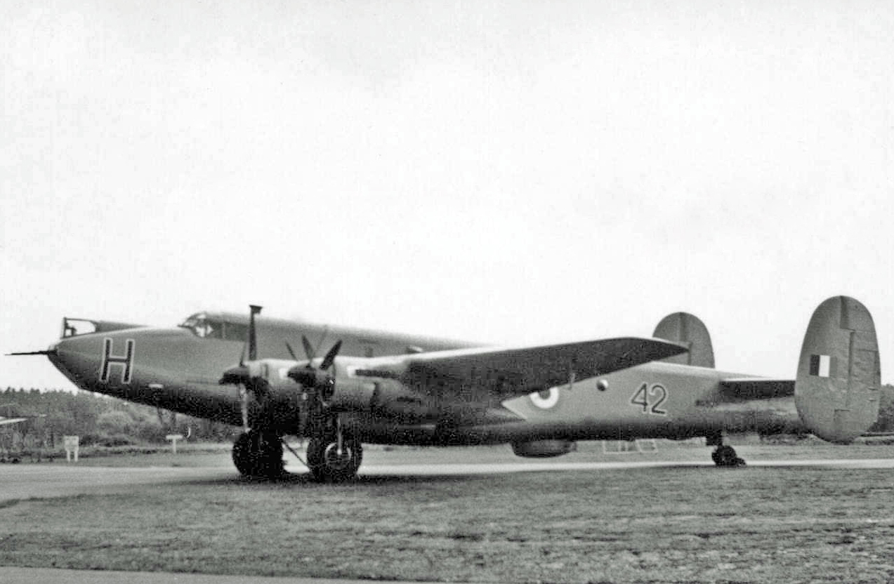 Avro 696 Shackleton MR.2 WG533 of 42 Squadron at Blackbushe Airport, Hampshire.